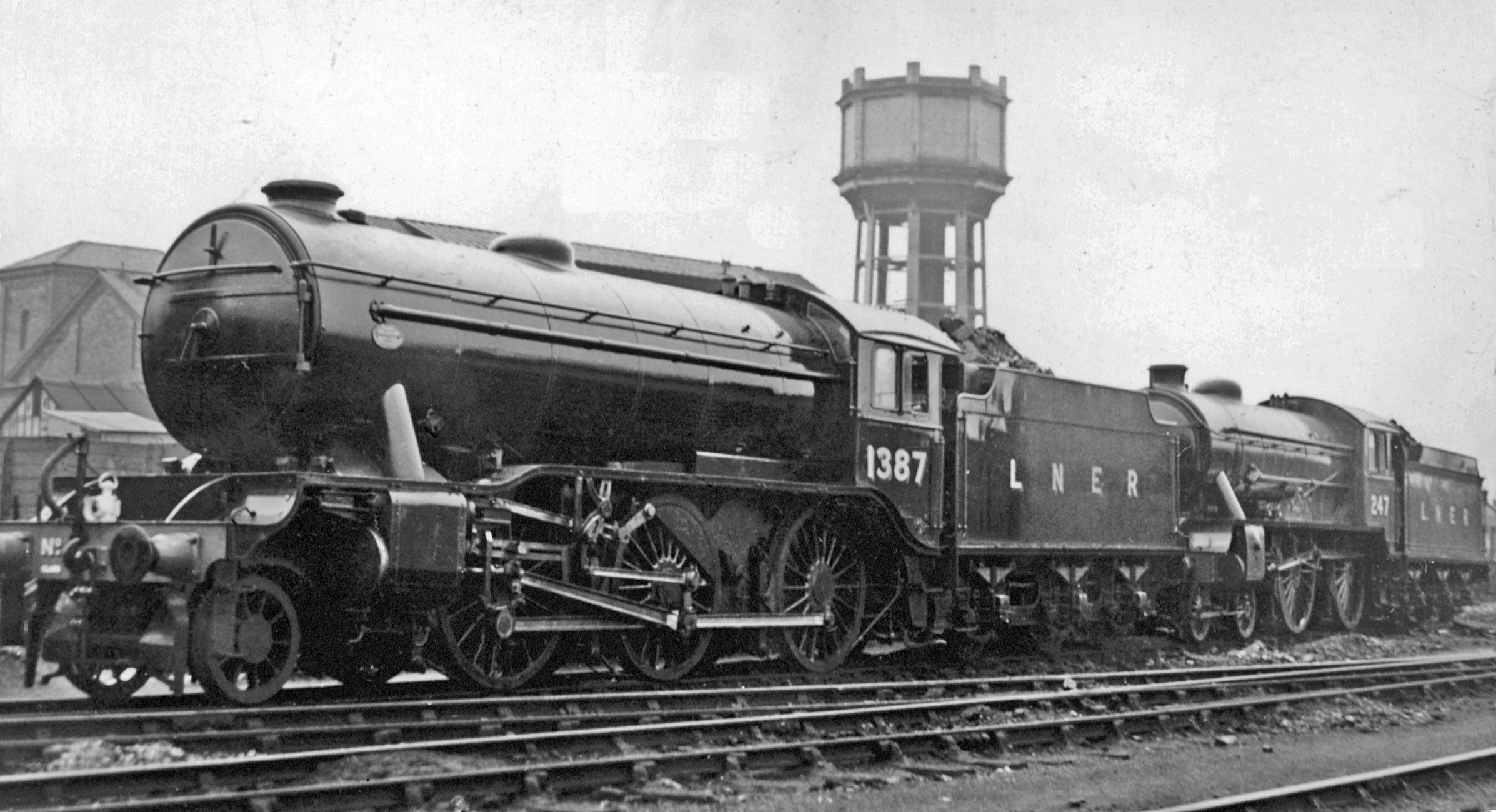 Resplendent LNER locomotives at York, 1939Seen outside York North Locomotive Depot (now the National Railway Museum), and evidently recently repaired and repainted, at the beginning of WW2 in September 1939, we see Gresley K3 2-6-0 No. 1387 (built 10/29, 1946 No. 1880 then 61880, withdrawn 9/62) in front of D49/2 'Hunt' 4-4-0 No. 247 'The Blankney' (built 7/32, 1946 No. 2741 then 62741, withdrawn 10/58).